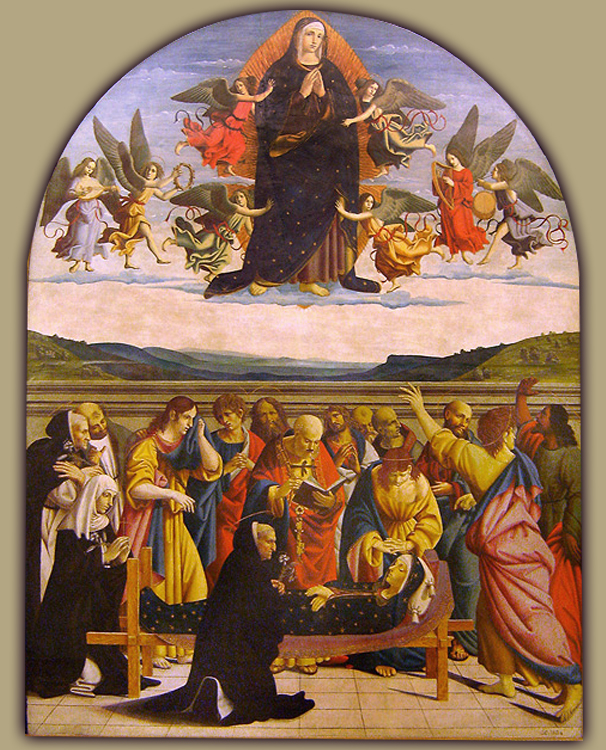 Cola dell' Amatrice: Death and assumption of the Virgin Mary. Musei Capitolini, Rome